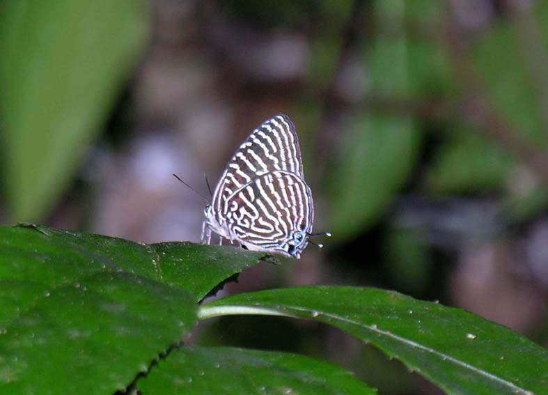 Arhopala aronya natsumiae, Mt. Canlaon, Negros Island